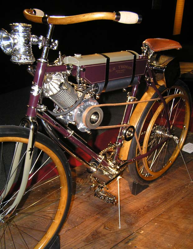 1900 Thomas motorcycle - The Art of the Motorcycle exhibition - Memphis. 1.8 hp, top speed 25 mph. Lent by His Excellency Sheikh Saud Al-Thani